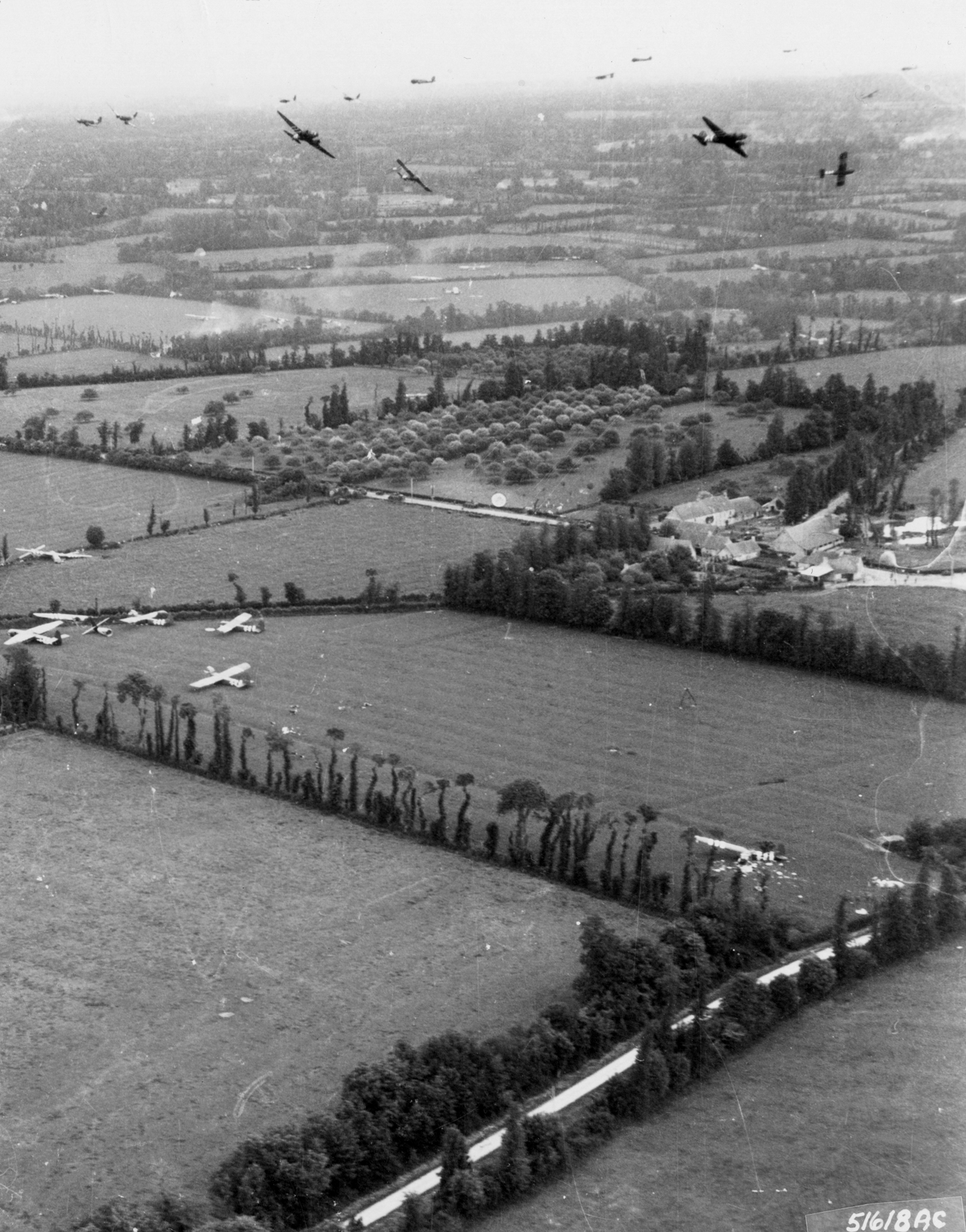 A U.S. Army Air Forces Douglas C-47 Skytrain aircraft bank for England after their CG-4A gliders have cut loose from their tow lines. The photo was taken during "Mission Elmira" (reinfocement of the U.S. 82nd Airborne Division) or "Mission Keokuck" (reinfocement of the U.S. 101st Airborne Division). Note the Airspeed Horsa gliders on the ground.